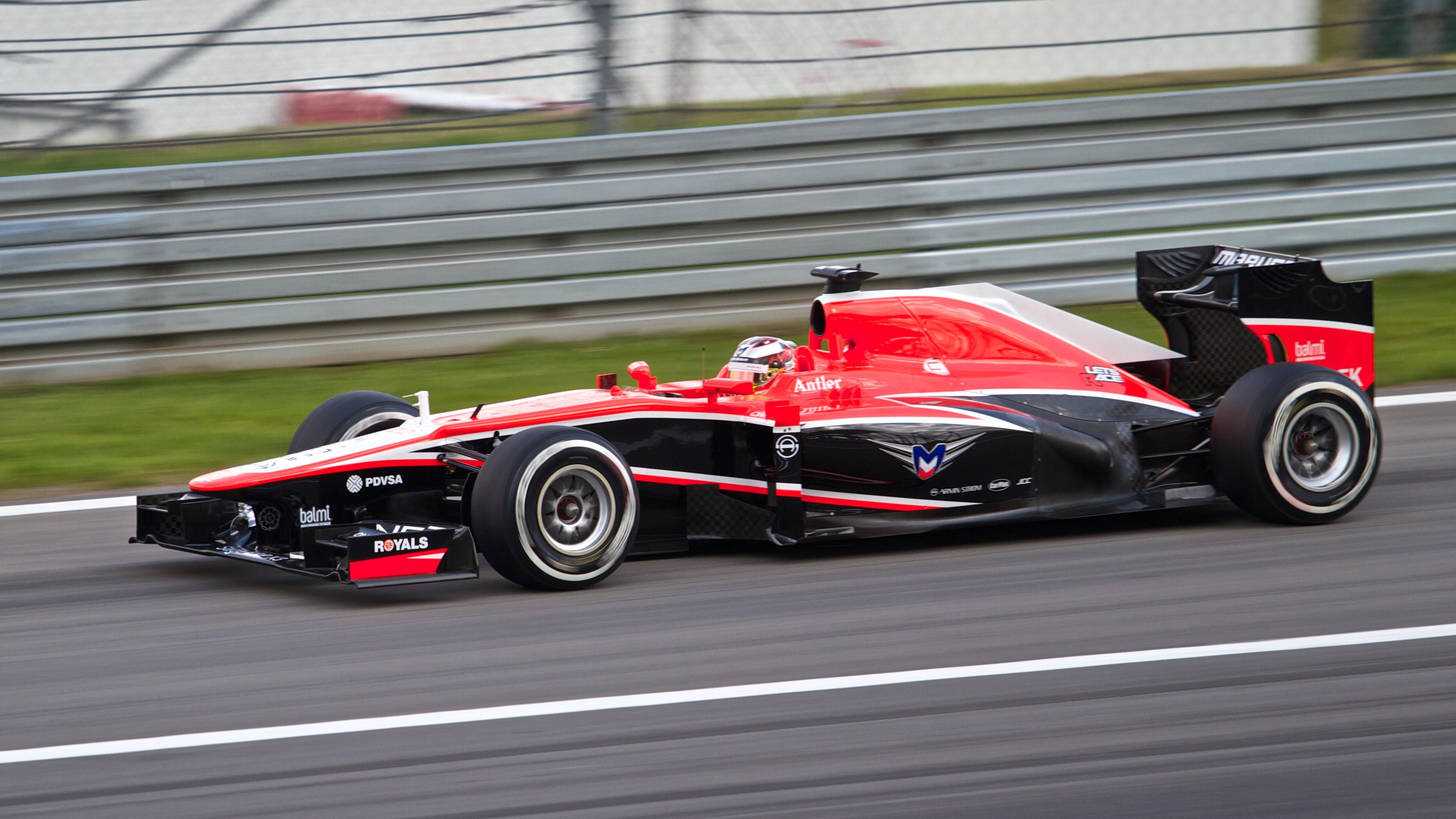 Jules Bianchi's Marussia MR02 during the 2013 German GP